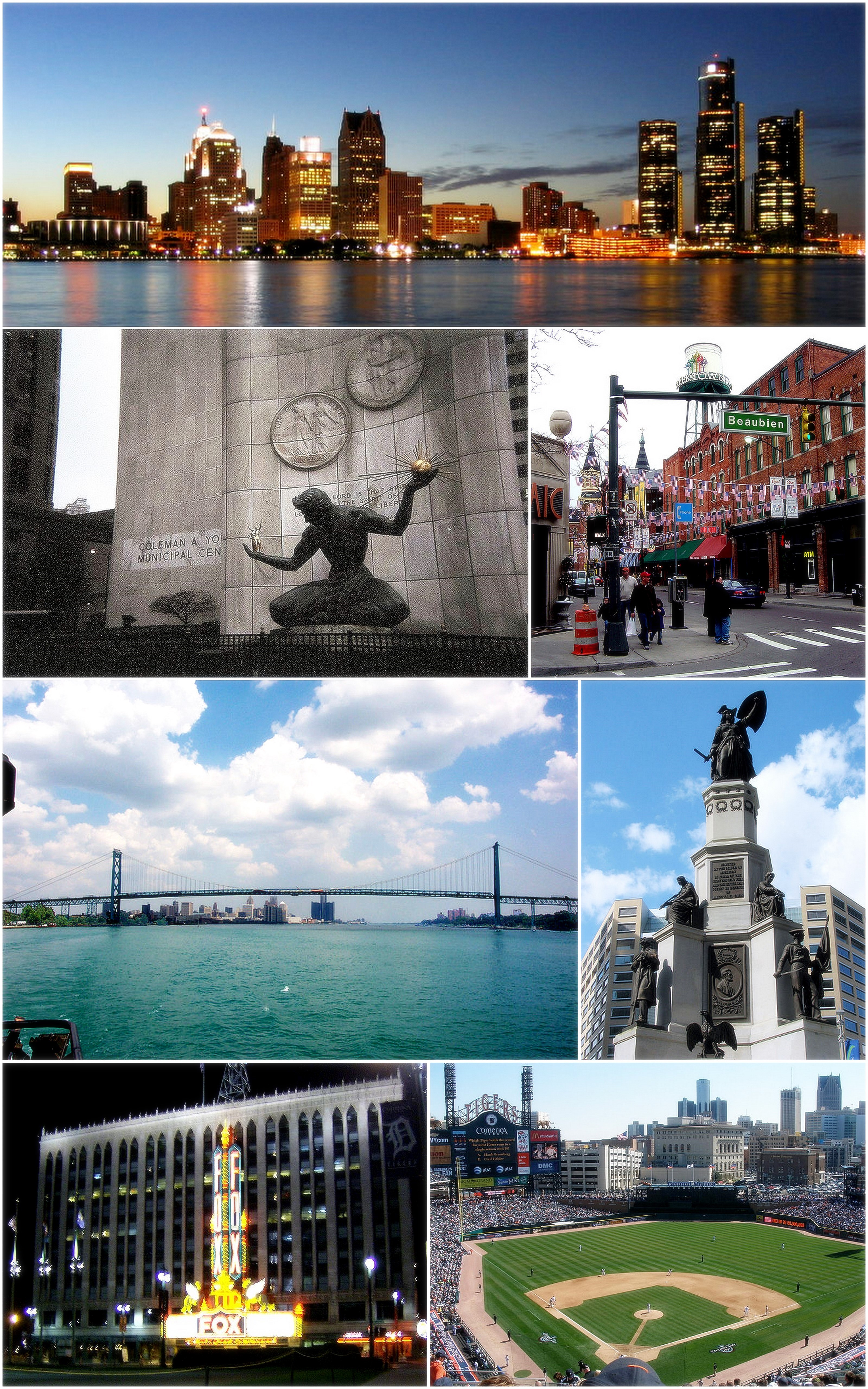 Montage of Detroit images on Commons.